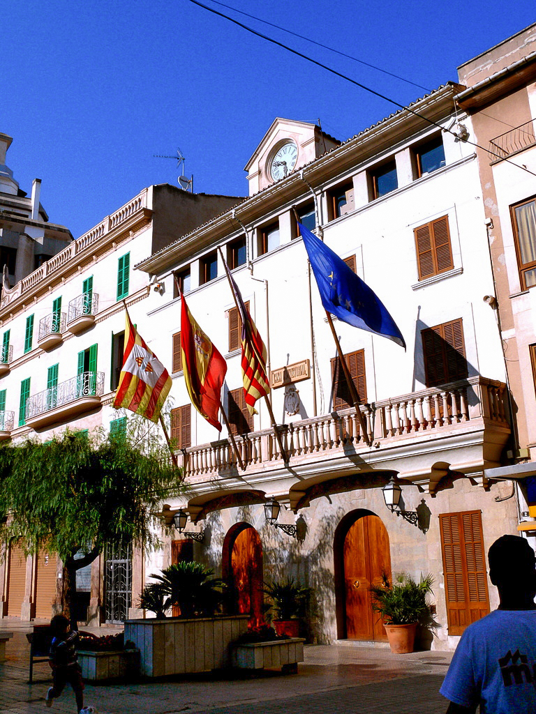 Inca's city hall (Mallorca)